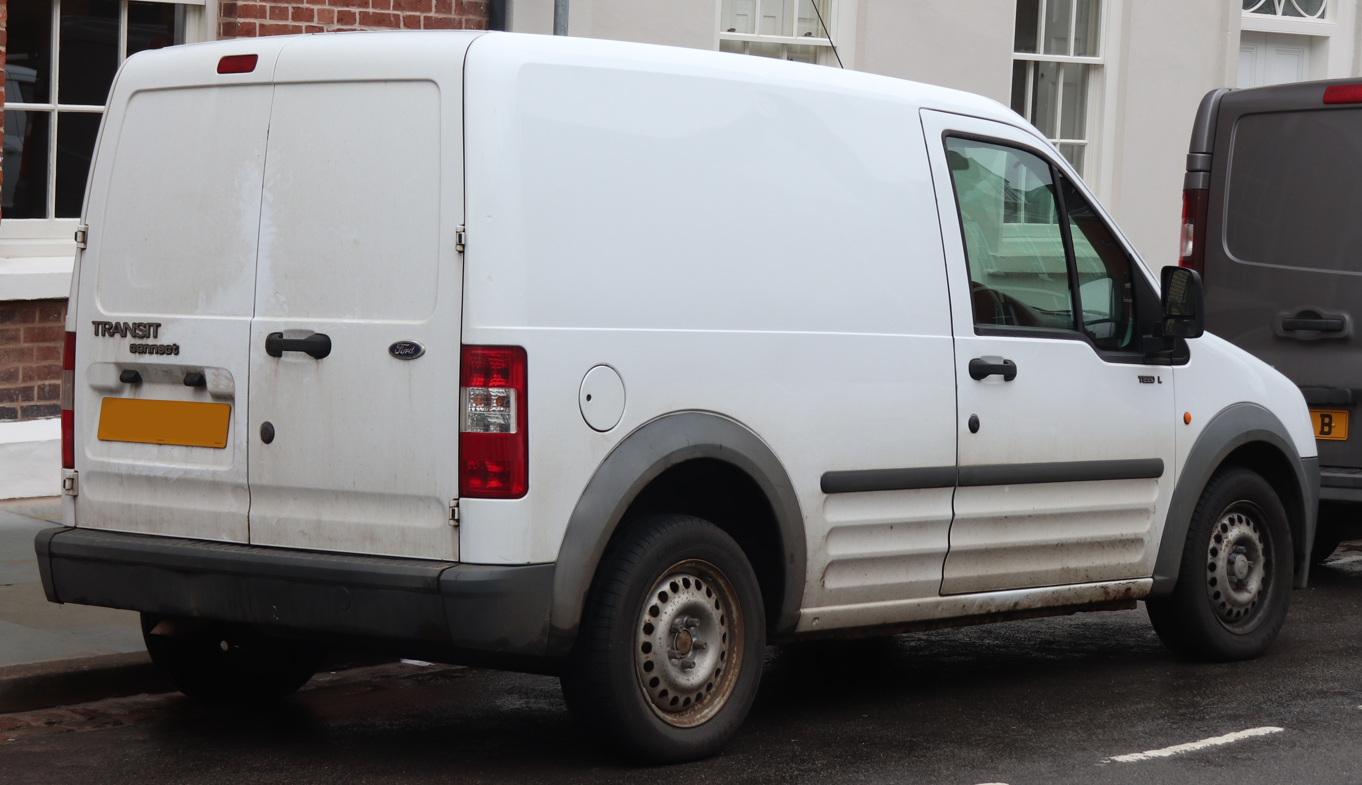 2009 Ford Transit Connect T220 L90 1.8 Rear Taken in Warwick